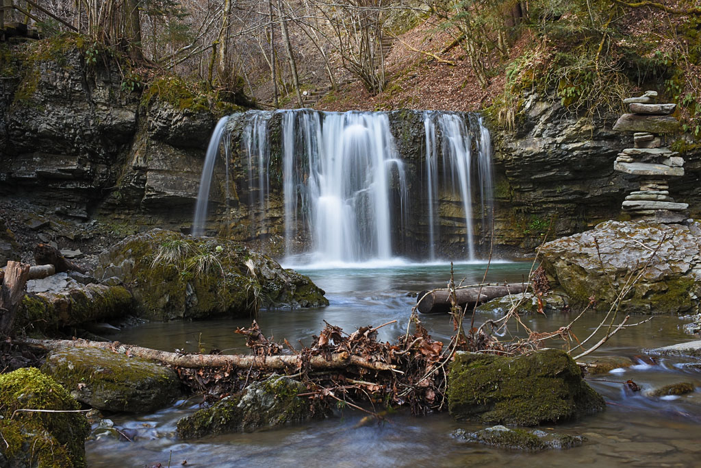 Peračiški slap is the only Slovenian waterfall on volcanic tuff.